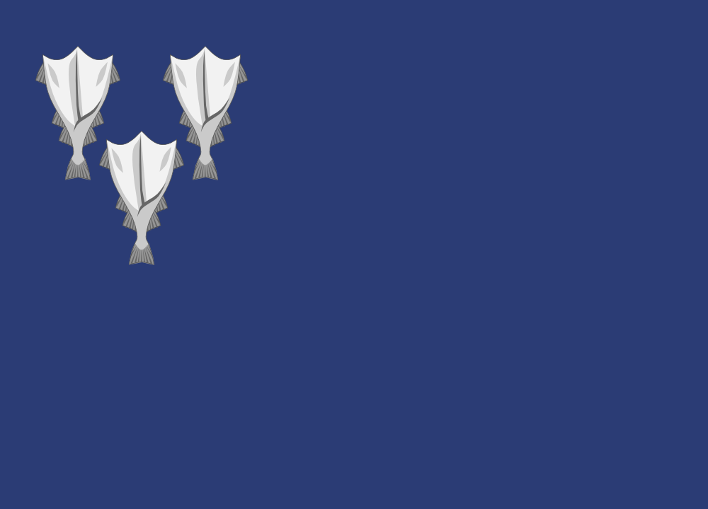 Flag of Iceland during King Jörundur's short reign (1809). Three stockfishes in the first quarter on a blue field.